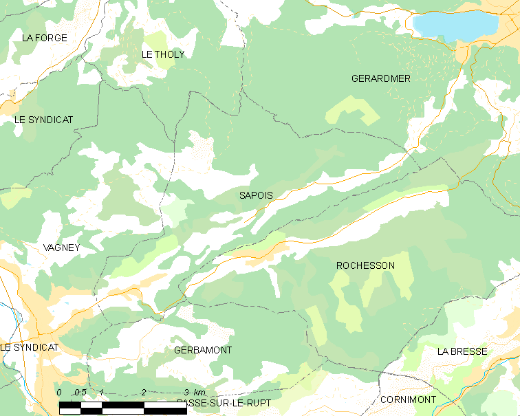 Map of French municipality Sapois